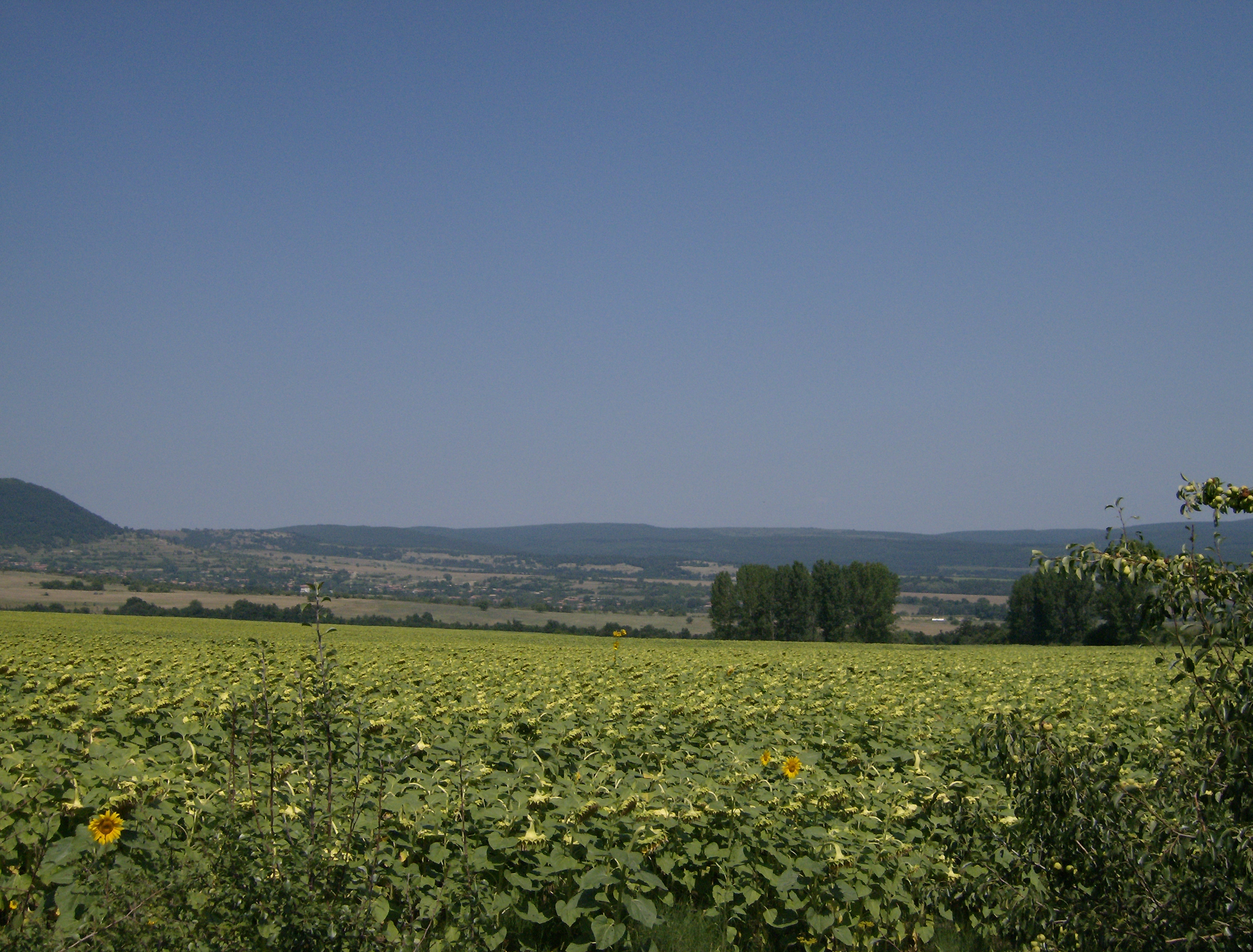 Rish